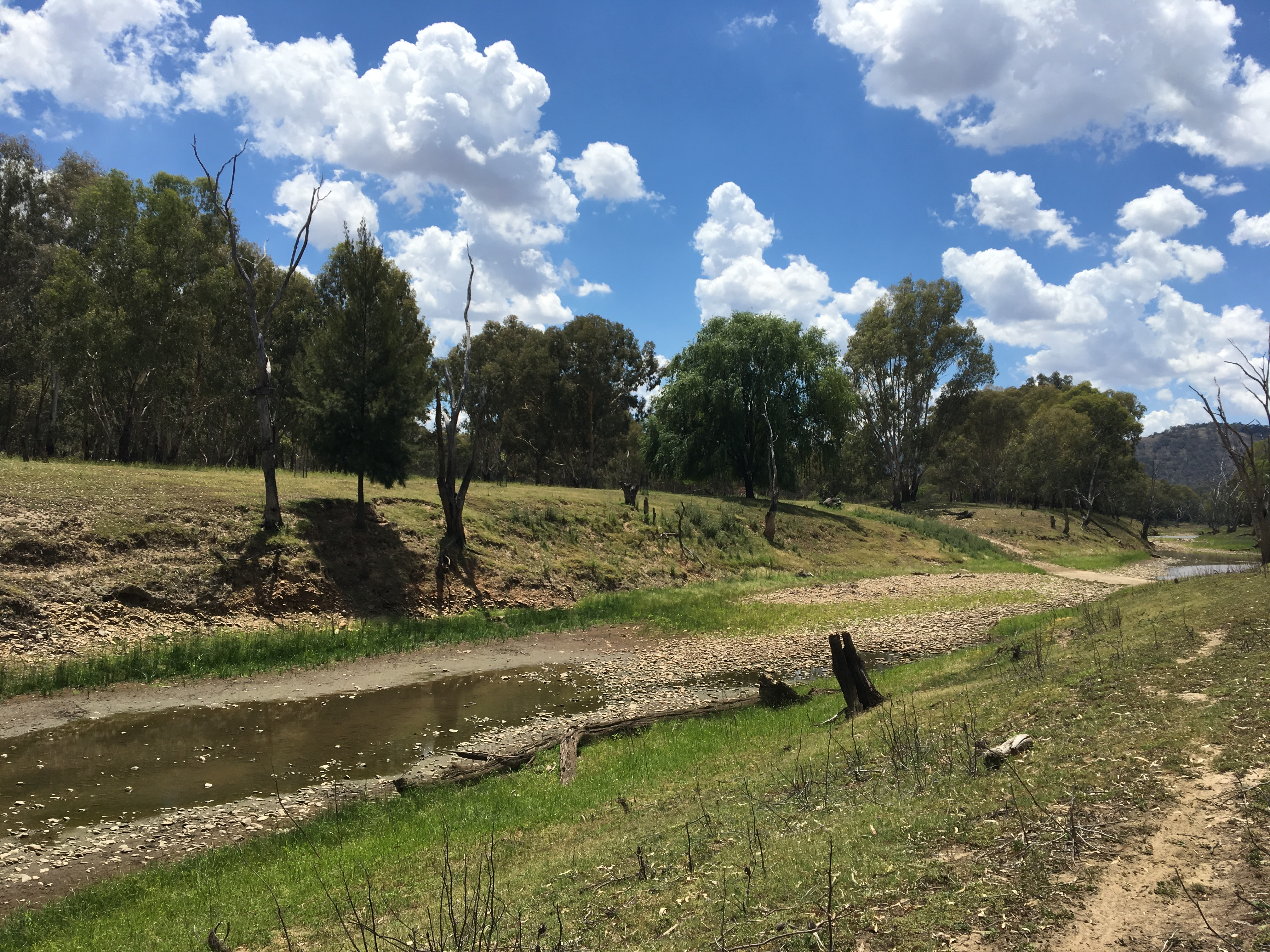 The Meroo River at Yarrabin (Merrendee) during summer of 2017/18.